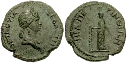 THRACE, Perinthus. Octavia, first wife of Nero. Augusta, 54-62 AD. Æ 27mm (10.35 gm, 12h). ΟΚΤΑΟΥΙΑ ΣΕΒΑ[Σ]ΤΗ (Octavia Augusta), diademed and draped bust right / ΗΡΑ ΠΕΡΙΝΘΙΩΝ (Hera of Perinthus), cult statue of Hera of Samos left, holding filleted patera. Schönert-Geiss 255; RPC I 1755; Varbanov 3694. EF, smooth olive green patina. Very rare (only seven specimens cited by Schönert-Geiss).